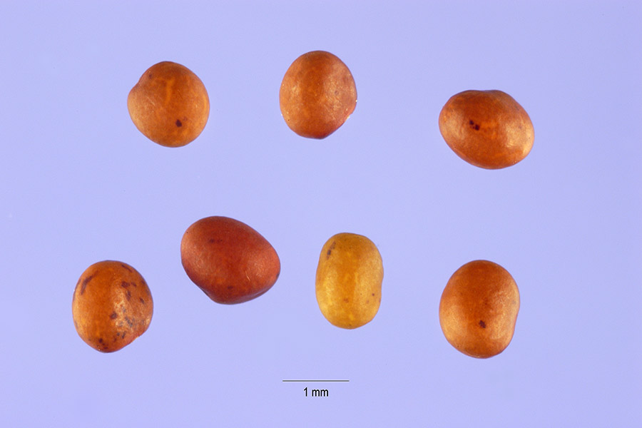 Lotus glaber P. Mill. - narrow-leaf bird's-foot trefoil